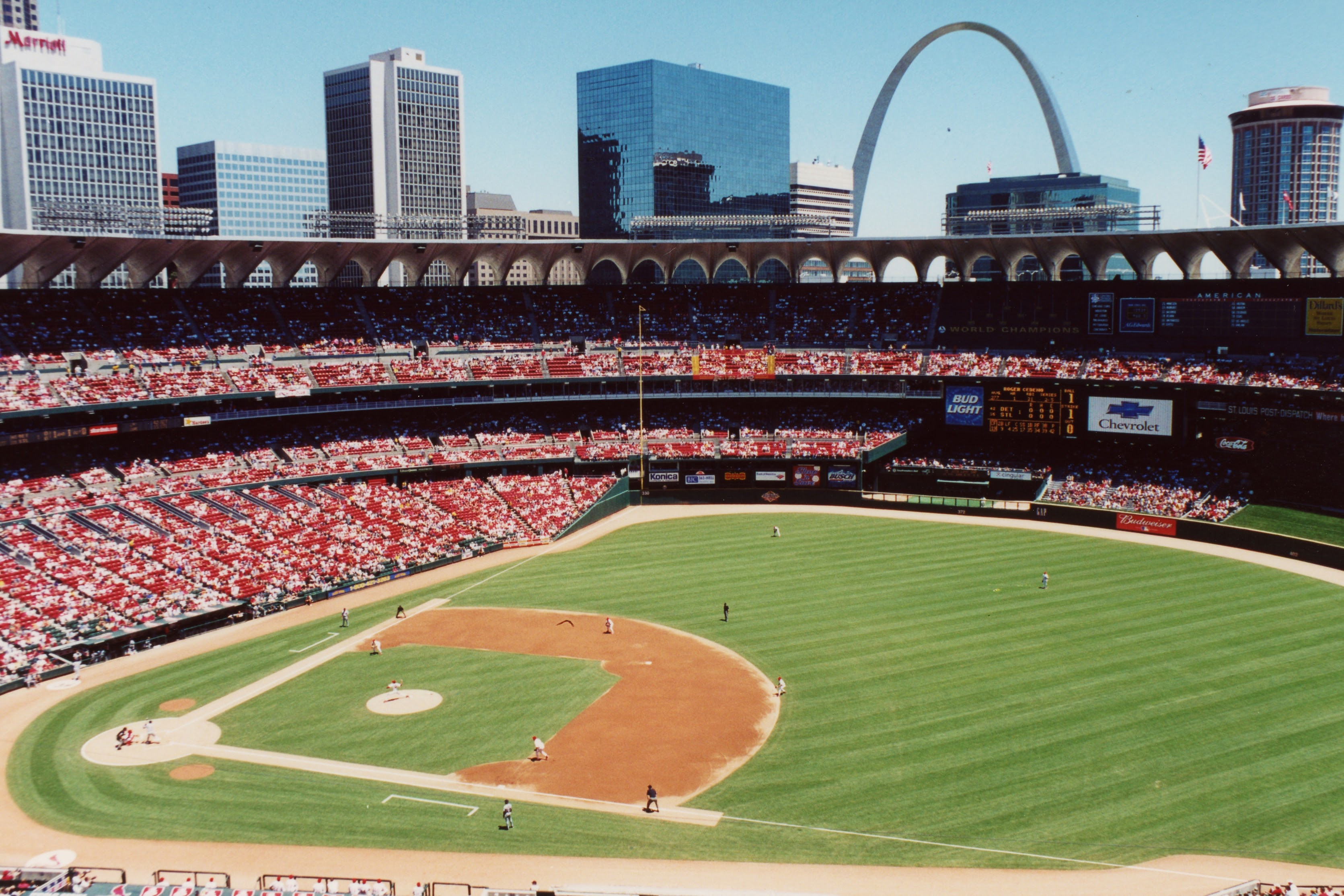 Busch Stadium, 2001, by Rick Dikeman Licensing Category:Cookie cutter stadiums